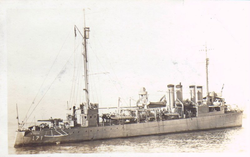 The U.S. Navy destroyer USS Burns (DD-171), circa in 1920.